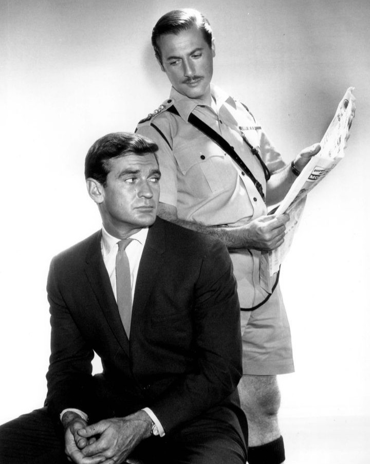 Photo of Rod Taylor as journalist Glenn Evans and Lloyd Bochner as Inspector Neil Campbell from the television program Hong Kong.